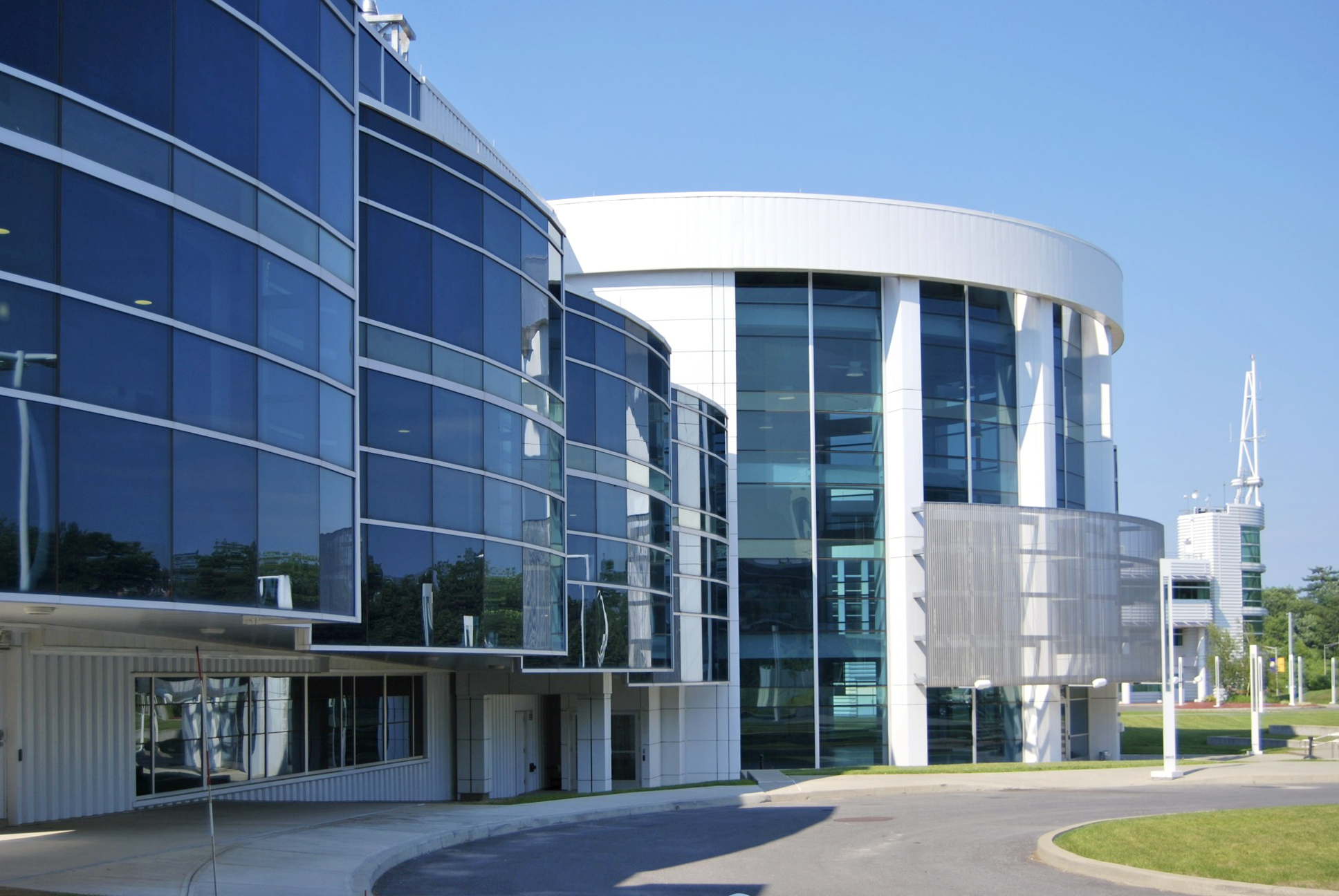 The University at Albany's College of Nanoscale Science and Engineering in Albany, New York, United States